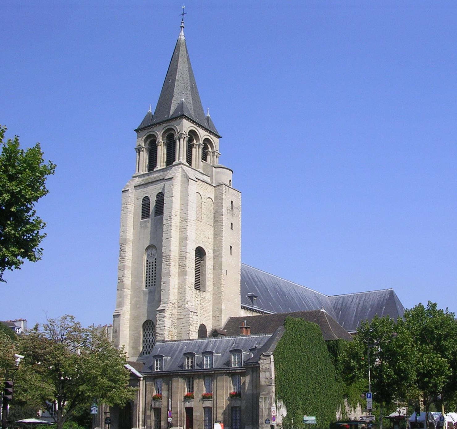 The Abby of Saint Germain des Pres, in Paris, France, as seen from Place Saint Germain des Pres. The oldest part of the structure is the wing with the dark roof, visible above the ivy-covered wall.